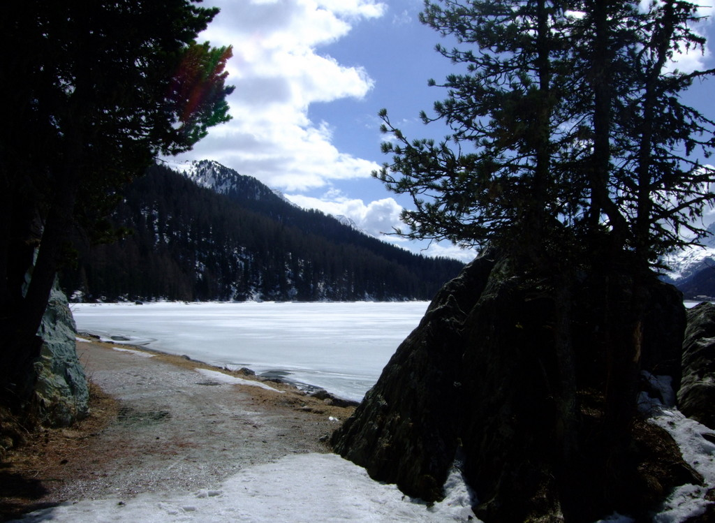 The stone of eternal recurrence (Nietzsche stone) at the Silvaplanersee (Oberengadin, Switzerland).